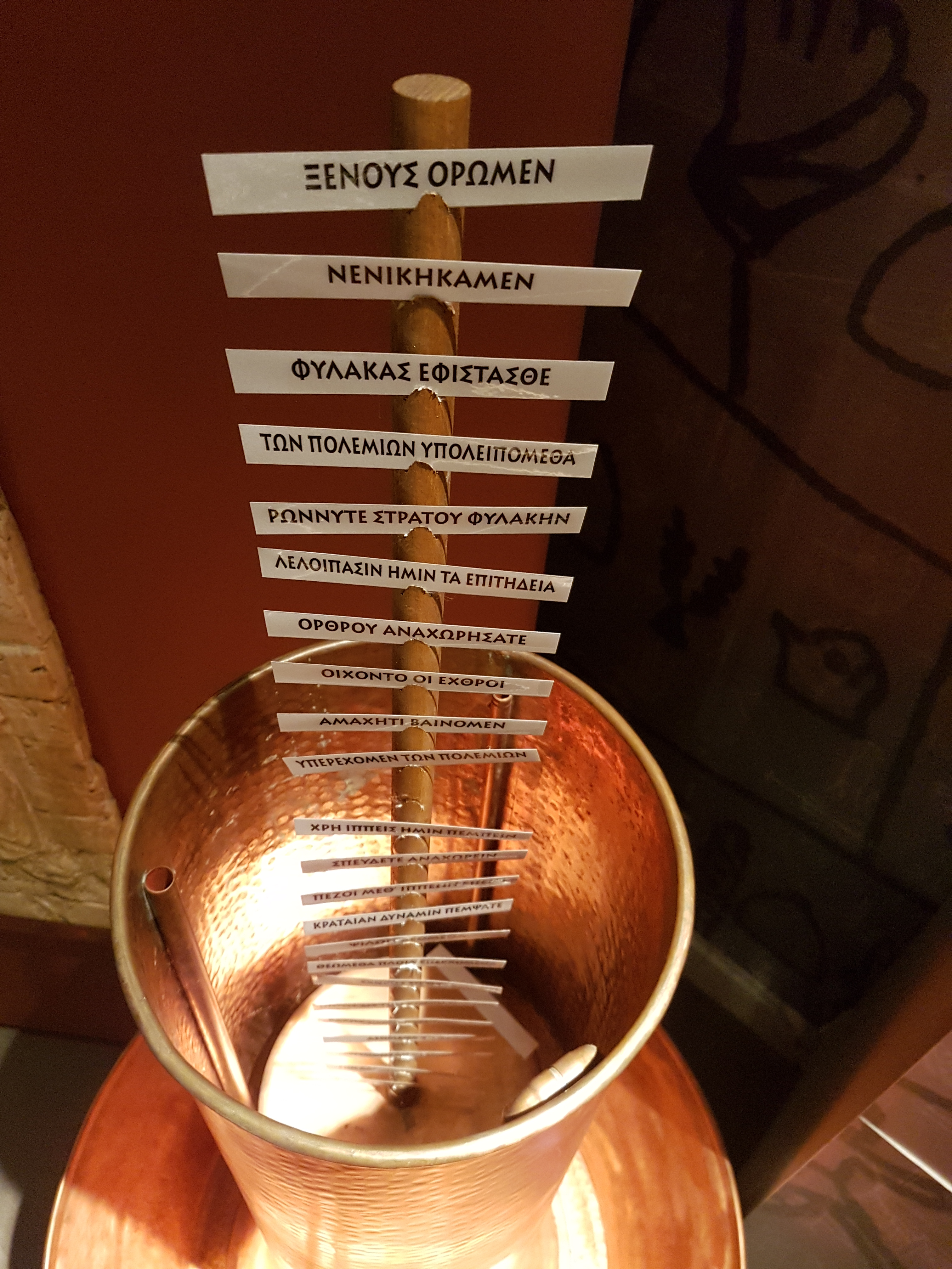 Hydraulic telegraph, 4th century BC (reconstruction based on descriptions by Aeneas Tacticus and Polybius). Thessaloniki Technology Museum